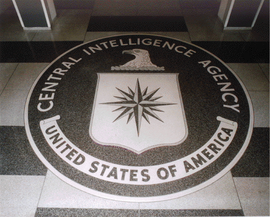 The seal of the U.S. Central Intelligence Agency inlaid in the floor of the main lobby of the Original Headquarters Building. Inlaid in the floor of the main lobby of the Original Headquarters Building is a large granite CIA seal measuring 16 feet across in diameter. This emblem has been the symbol for the Central Intelligence Agency since February 17, 1950, and is comprised of three representative parts: the eagle, the shield and the 16-point compass star. The eagle is our national bird and stands for strength and alertness. The 16-point compass star represents the convergence of intelligence data from around the world at a central point. The shield is the standard symbol of defense and the intelligence we gather for policymakers is used in their decisions about defending our country. Well-known for not only the agency it represents, this seal has appeared in many entertainment and documentary motion pictures.